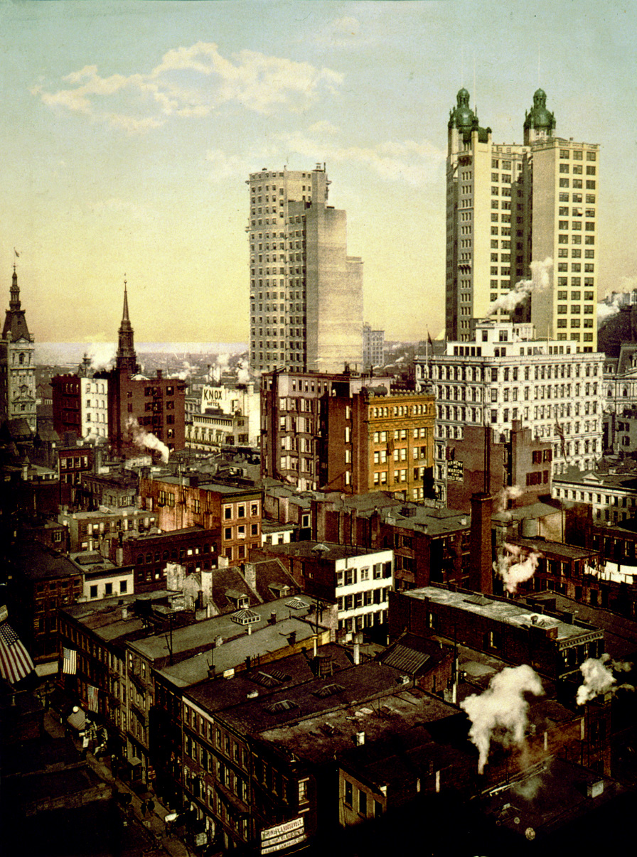 Photochrom print of skyscrapers in downtown Manhattan. Looking north at Park Row Building with two domes, right. Tribune Building with spire, left.